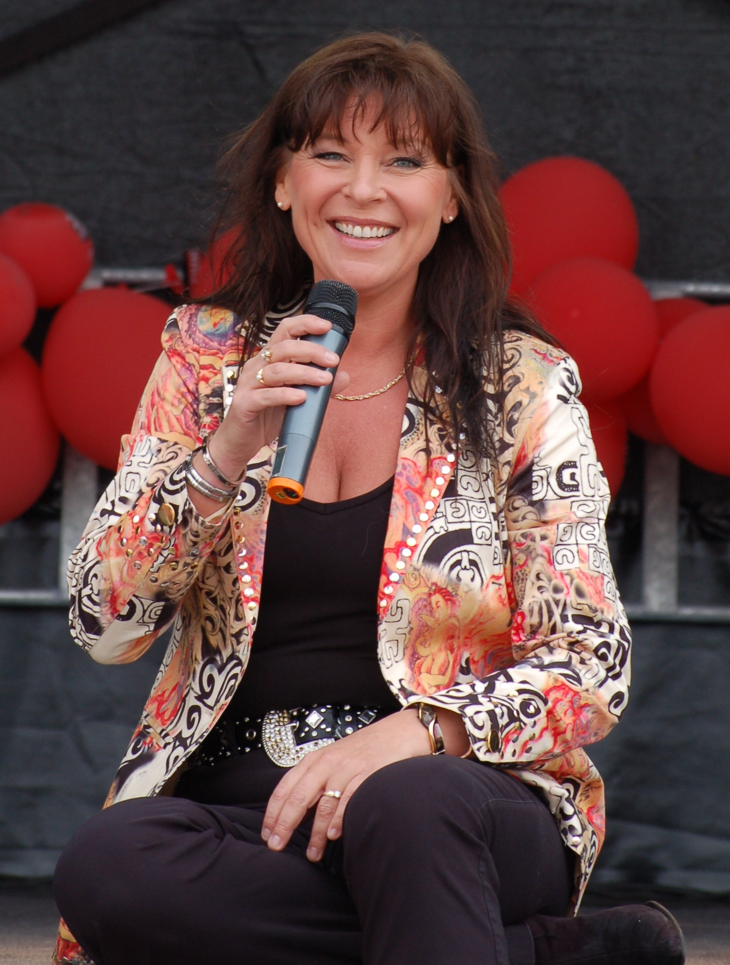 Lotta Engberg visit Norrköping